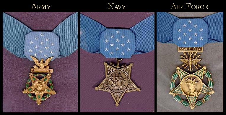 The Medals of Honor awarded by each of the three branches of the U.S. military, and are, from left to right, the Army, Navy and Air Force.